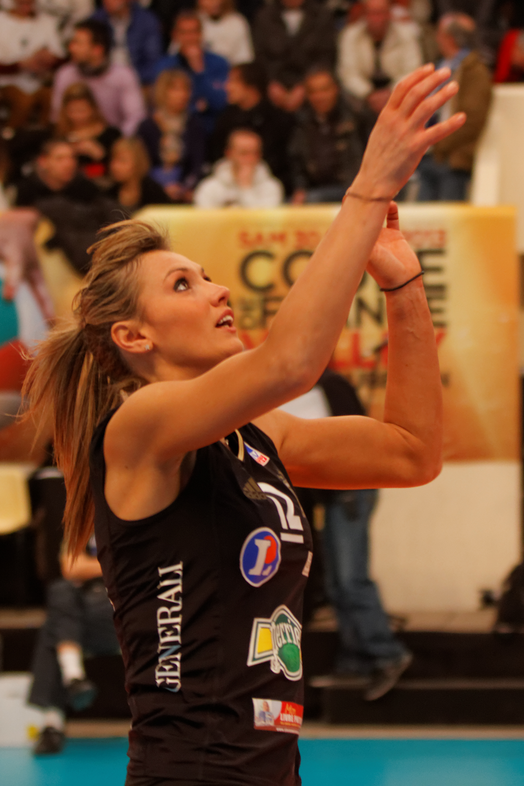 Final of the Volleyball French Cup, Racing Club de Cannes - Stella Étoile Sportive Calais, March 30, 2013.